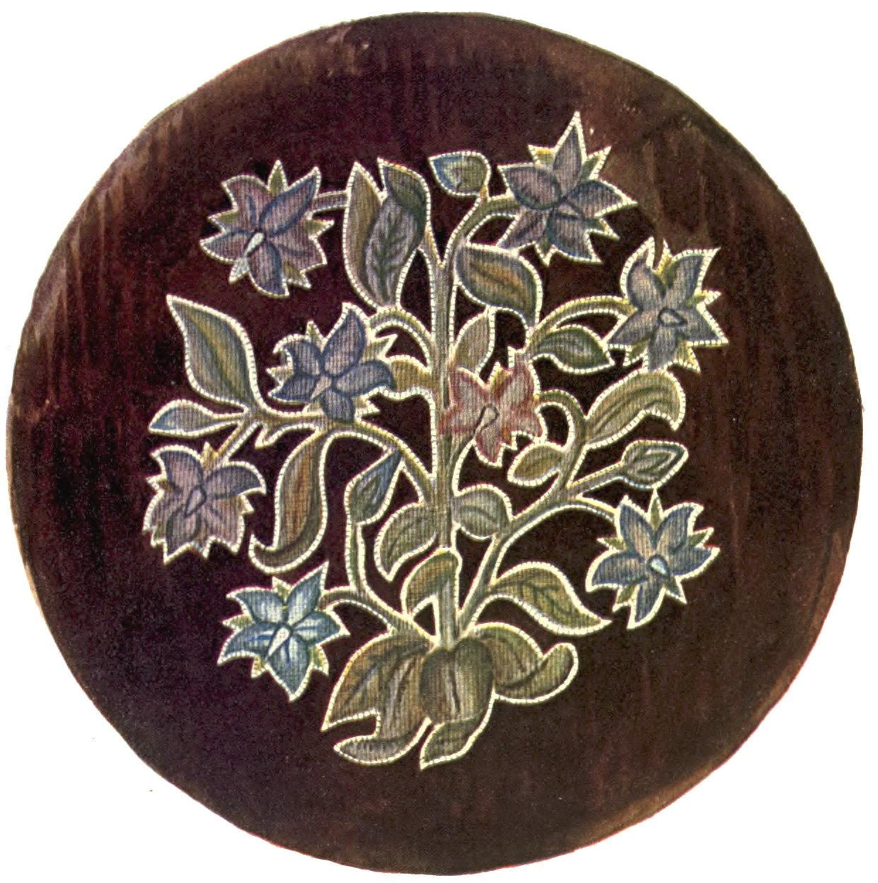 Illustration of an embroidered stool with a slip of borage worked in canvaswork and appliqued to a velvet ground, early 17th century (Jacobean or possibly early Caroline)